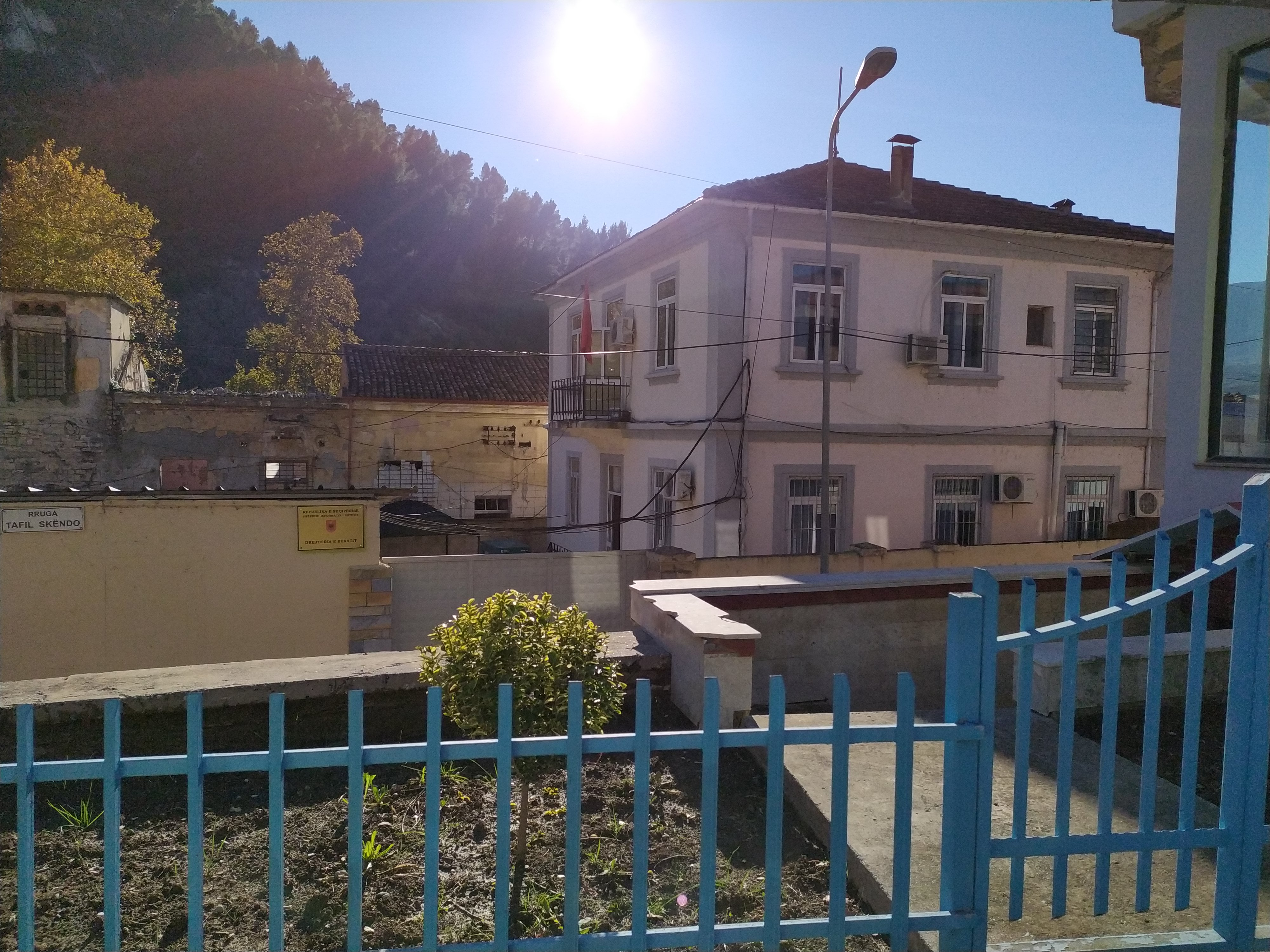 National Intelligence Service of Albania office in Berat